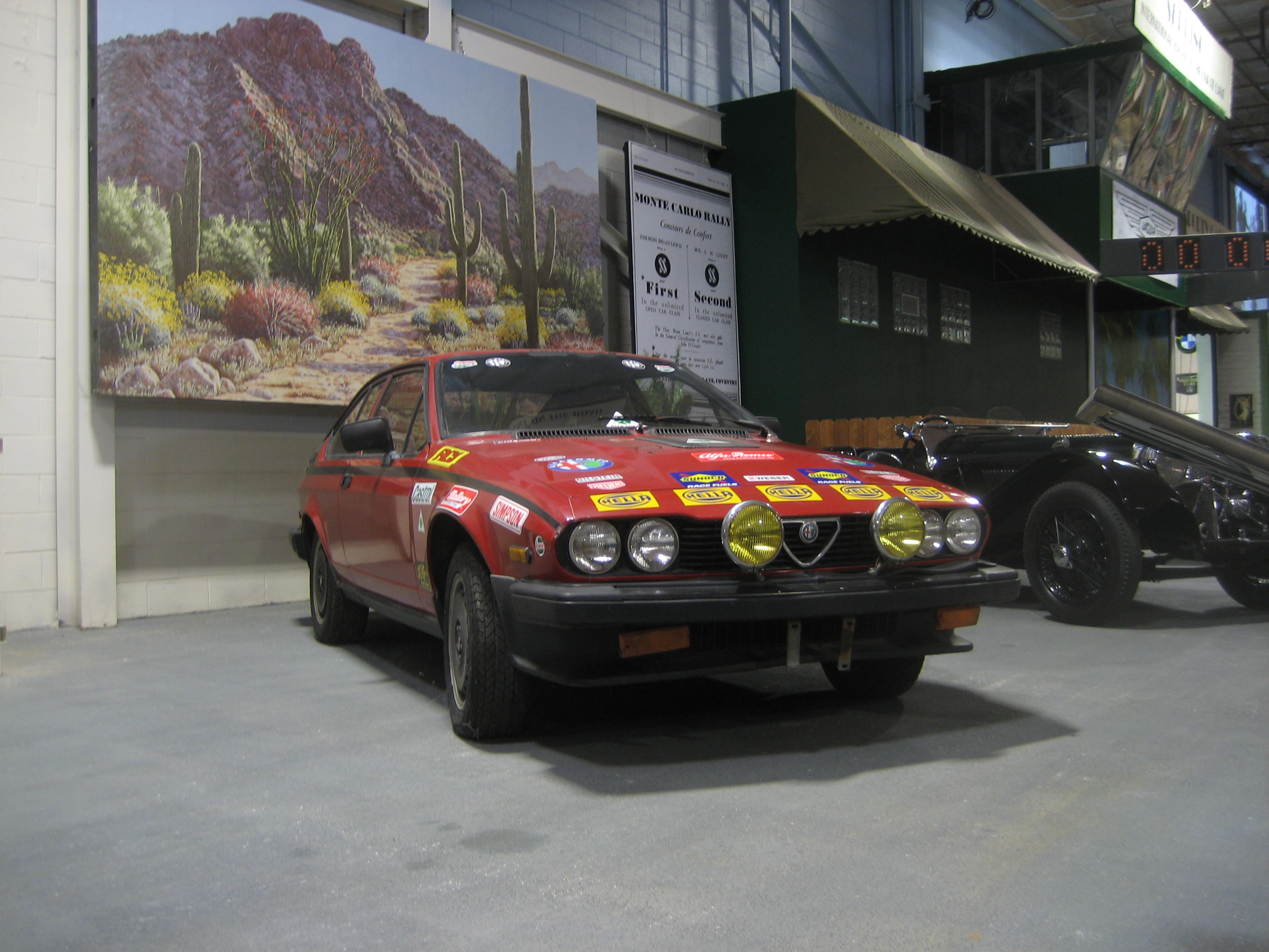 1982 ALFA ROMEO GTV6 rally car